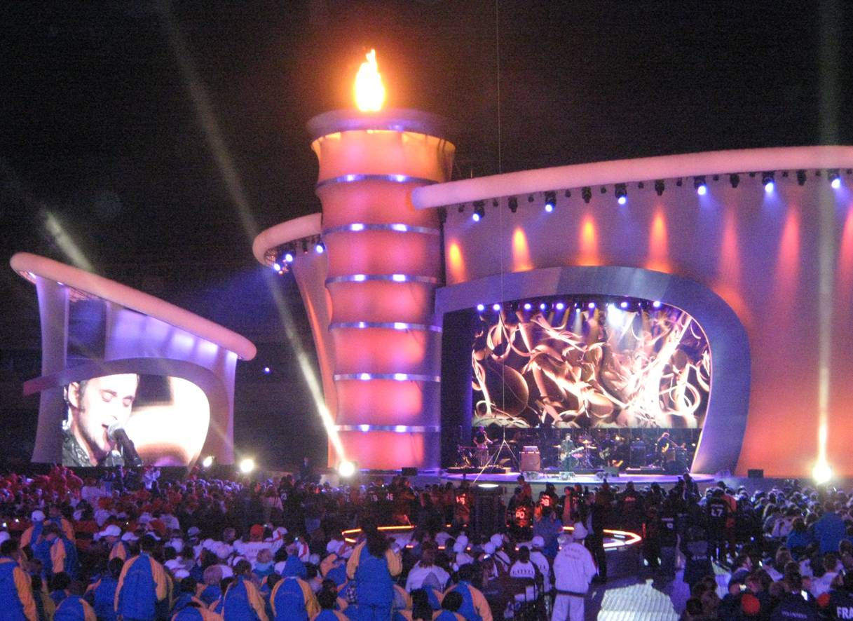 Warsaw 2010, Special Olympics, European Summer Games